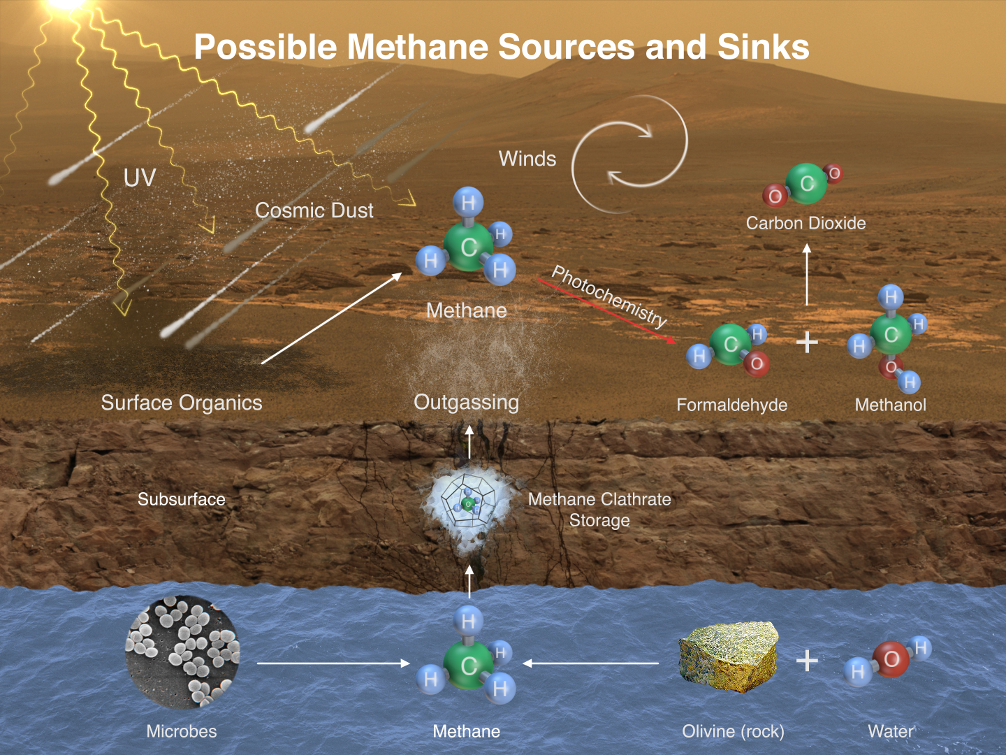 This image illustrates possible ways methane might be added to Mars' atmosphere (sources) and removed from the atmosphere (sinks). NASA's Curiosity Mars rover has detected fluctuations in methane concentration in the atmosphere, implying both types of activity occur on modern Mars.